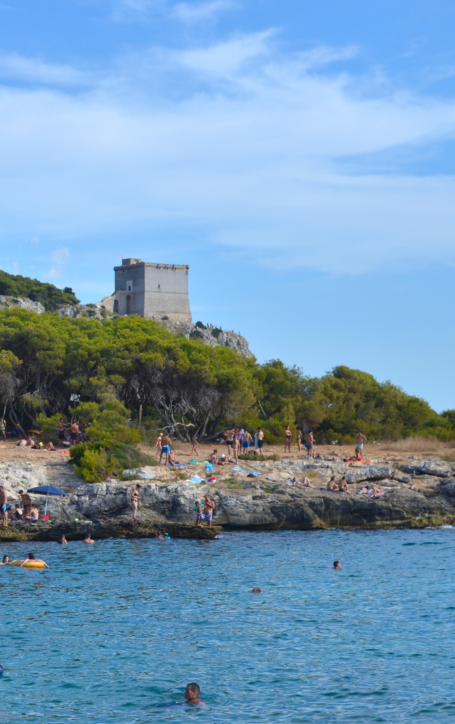 Porto selvaggio Summer 2019